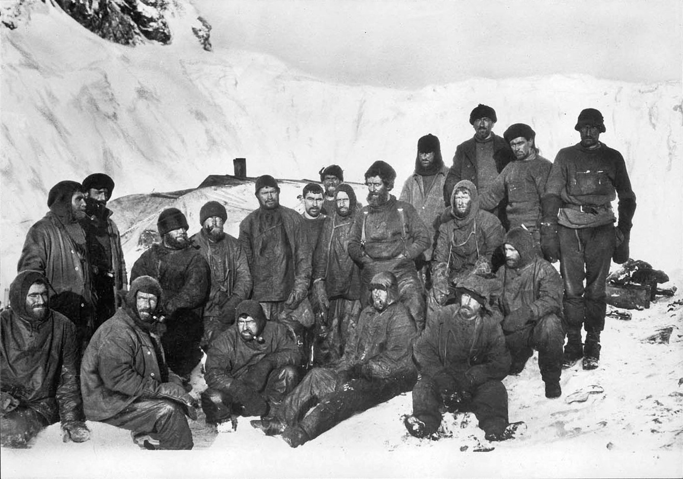 Thomas Orde-Lees